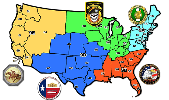 United States Army Recruiting Command Brigades and Battalions Map